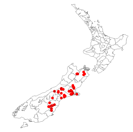 Carmichaelia corrugata occurrence data from Australasian Virtual Herbarium downloaded 2 December 2019 using